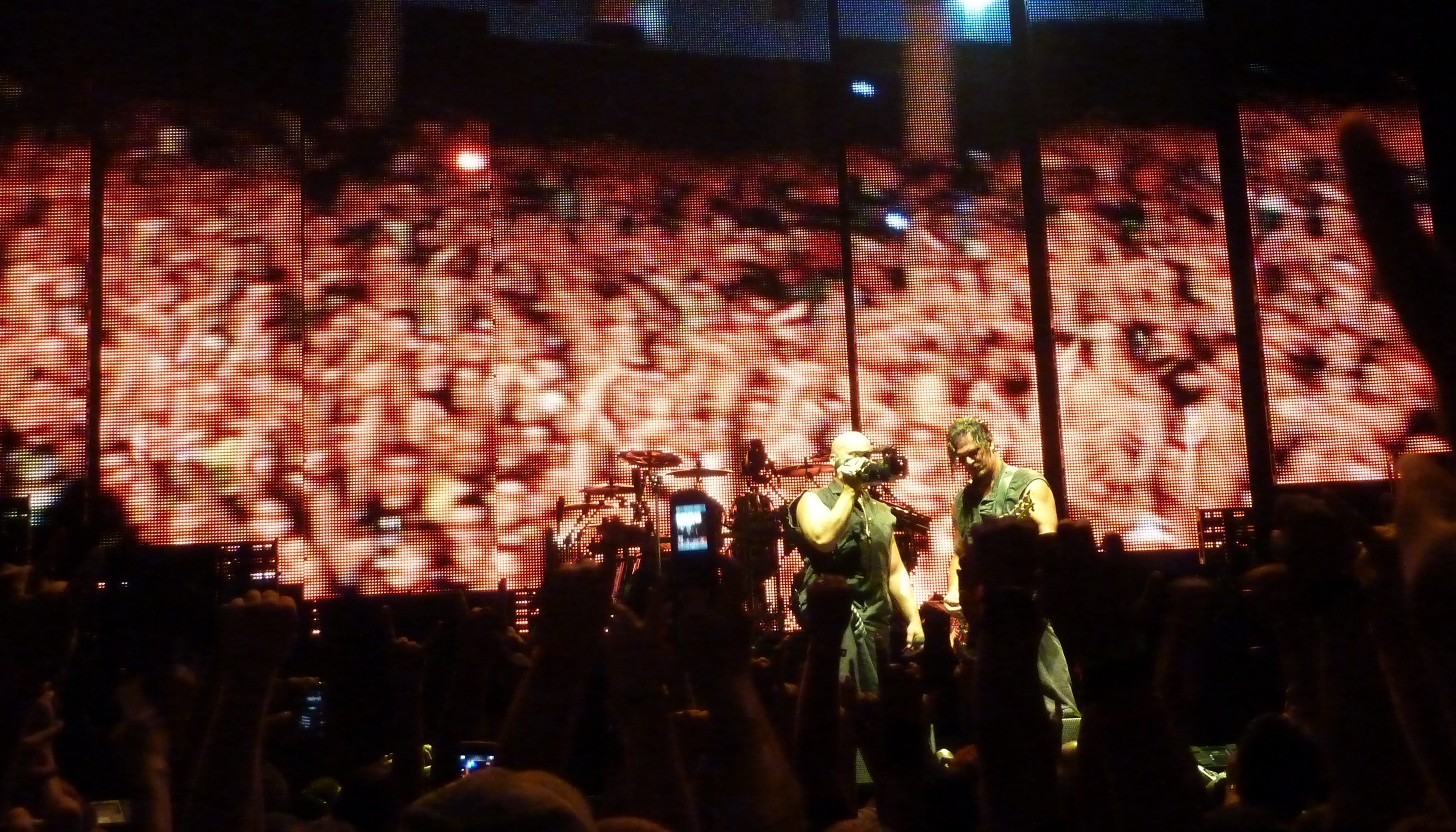 a show